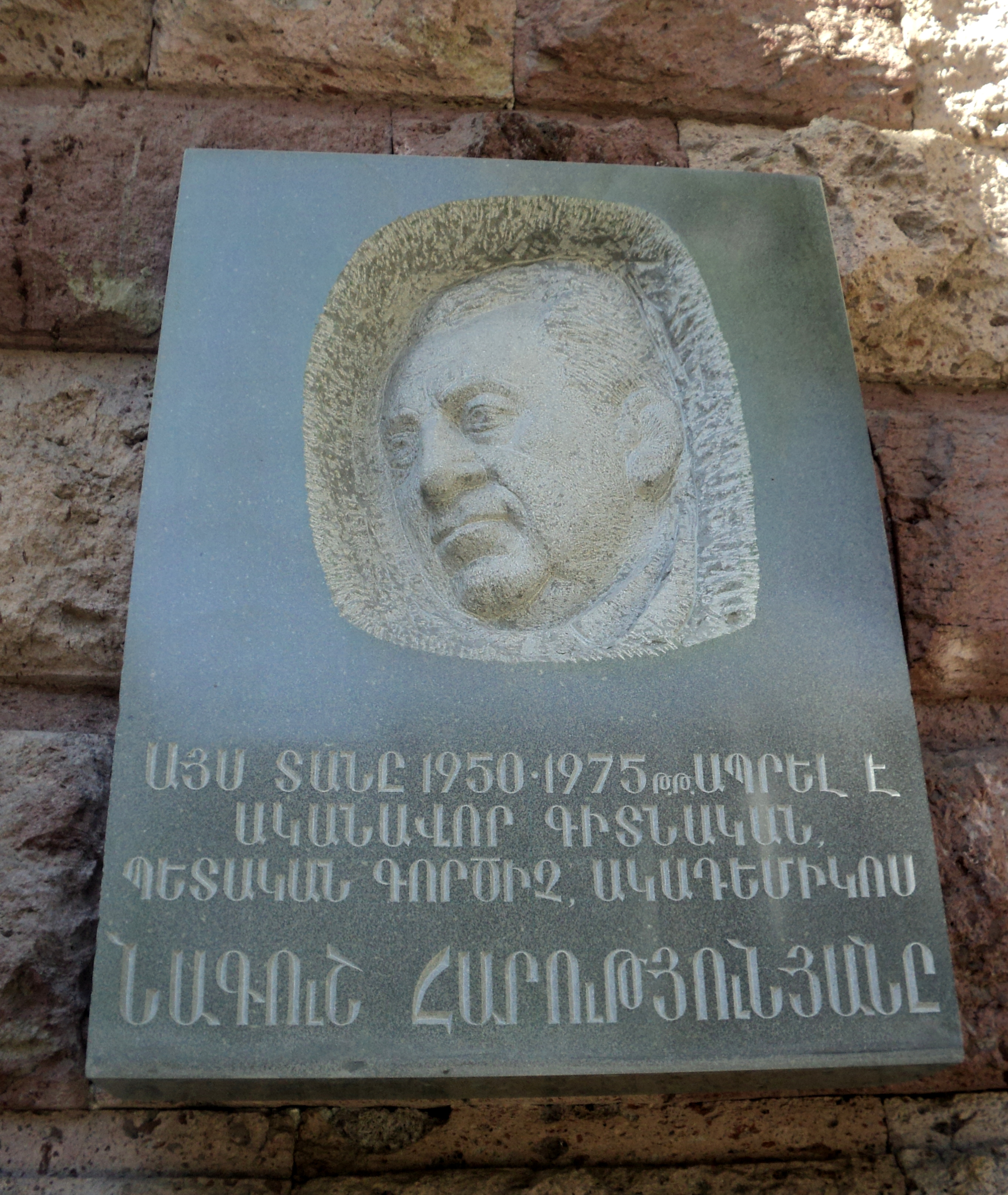 Nagush Haroutyunyans plaque in Yerevan